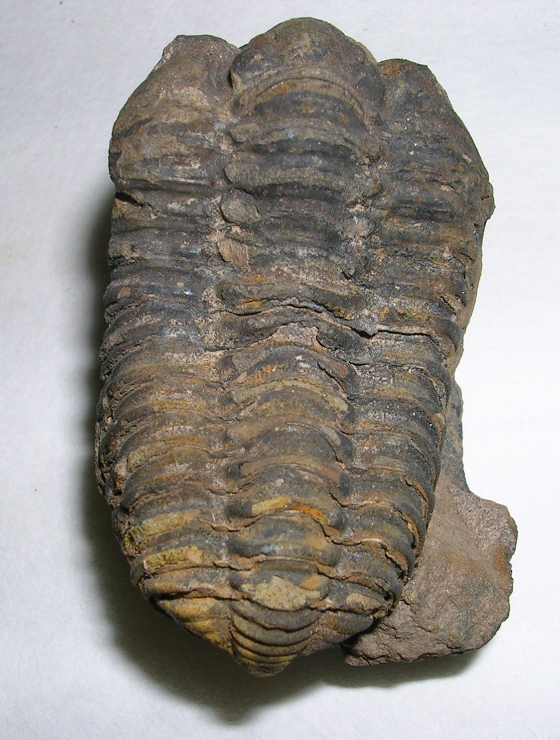 Crop of file in filename